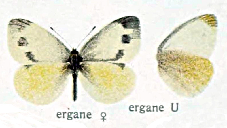 Pieris ergane